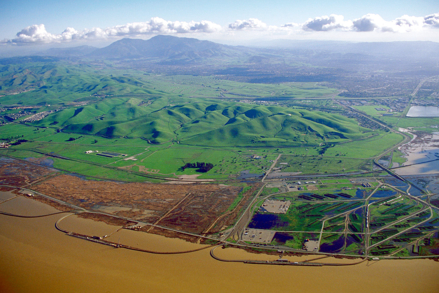 Mount Diablo, Contra Costa County, California, USA. View is to the south-southeast from Concord, California, approximately 14 miles (22 km) distant. Coordinates: 38°3′6.75″N 122°1′1.95″W / 38.051875°N 122.0172083°W